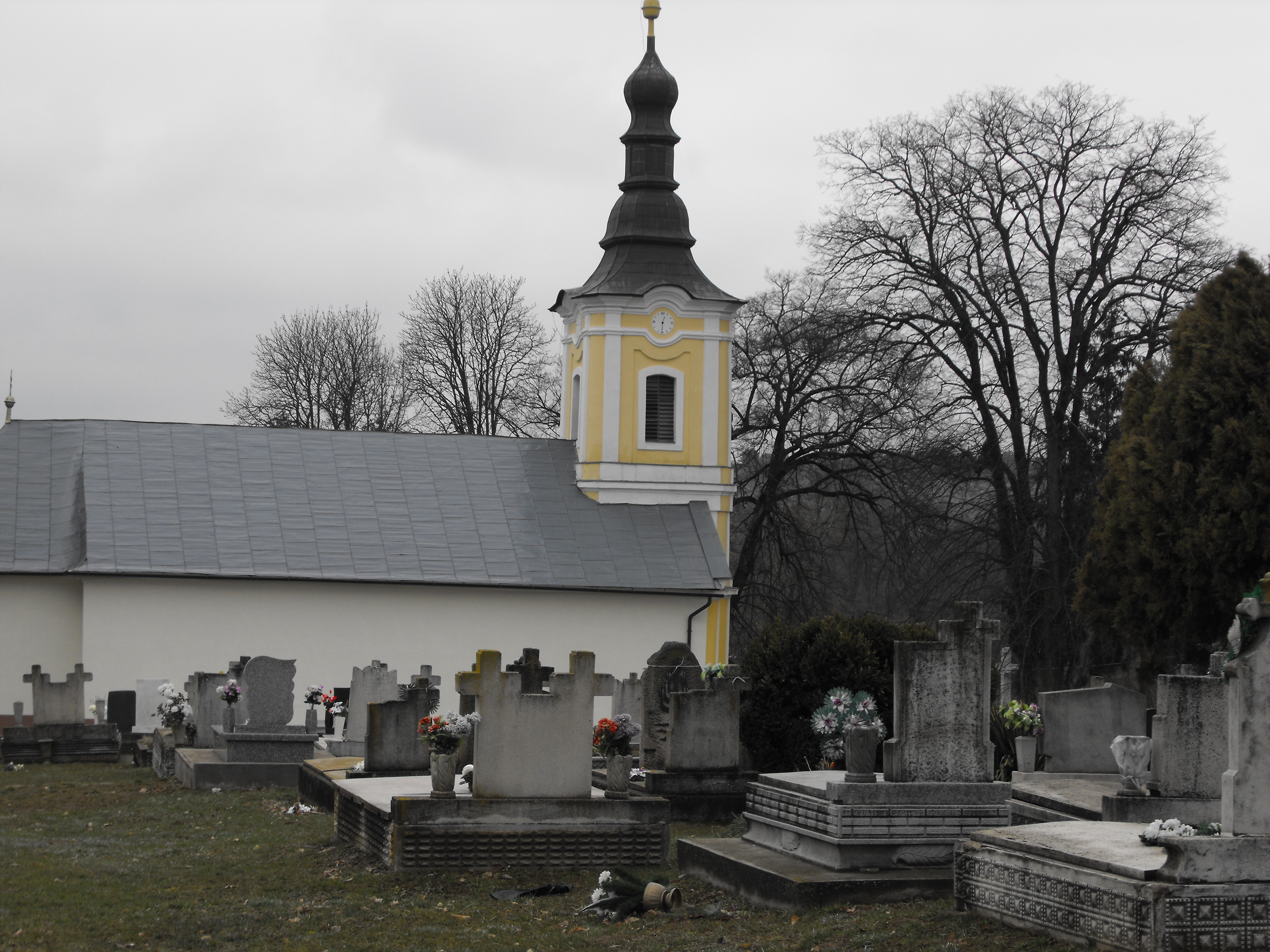 Greek-orthodox church in Viszlo, Cseretat, Hungary